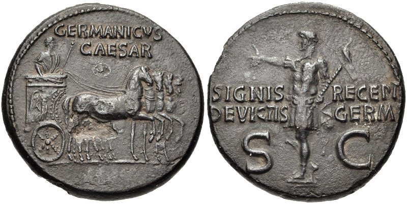 Germanicus. Died AD 19. Æ Dupondius (29mm, 16.10 g, 8h). Rome mint. Struck under Gaius (Caligula), AD 37-41. GERMANICVS CAESAR Germanicus in slow quadriga right; panel of chariot decorated with Victory SIGNIS RECEPT DEVICTIS GERMAN Germanicus standing left, raising arm, holding aquila. RIC I 57 (Gaius). Good VF, black patina with some earthen highlights, small pit below horses.